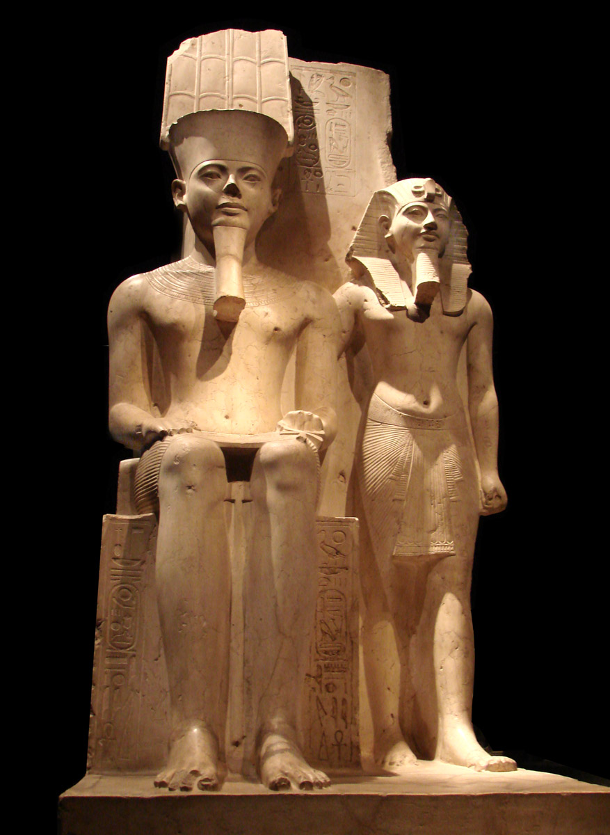 A well preserved statue of pharaoh Horemheb with the god Amun from the Egyptian Museum of Turin. museoegizio.it C. 768